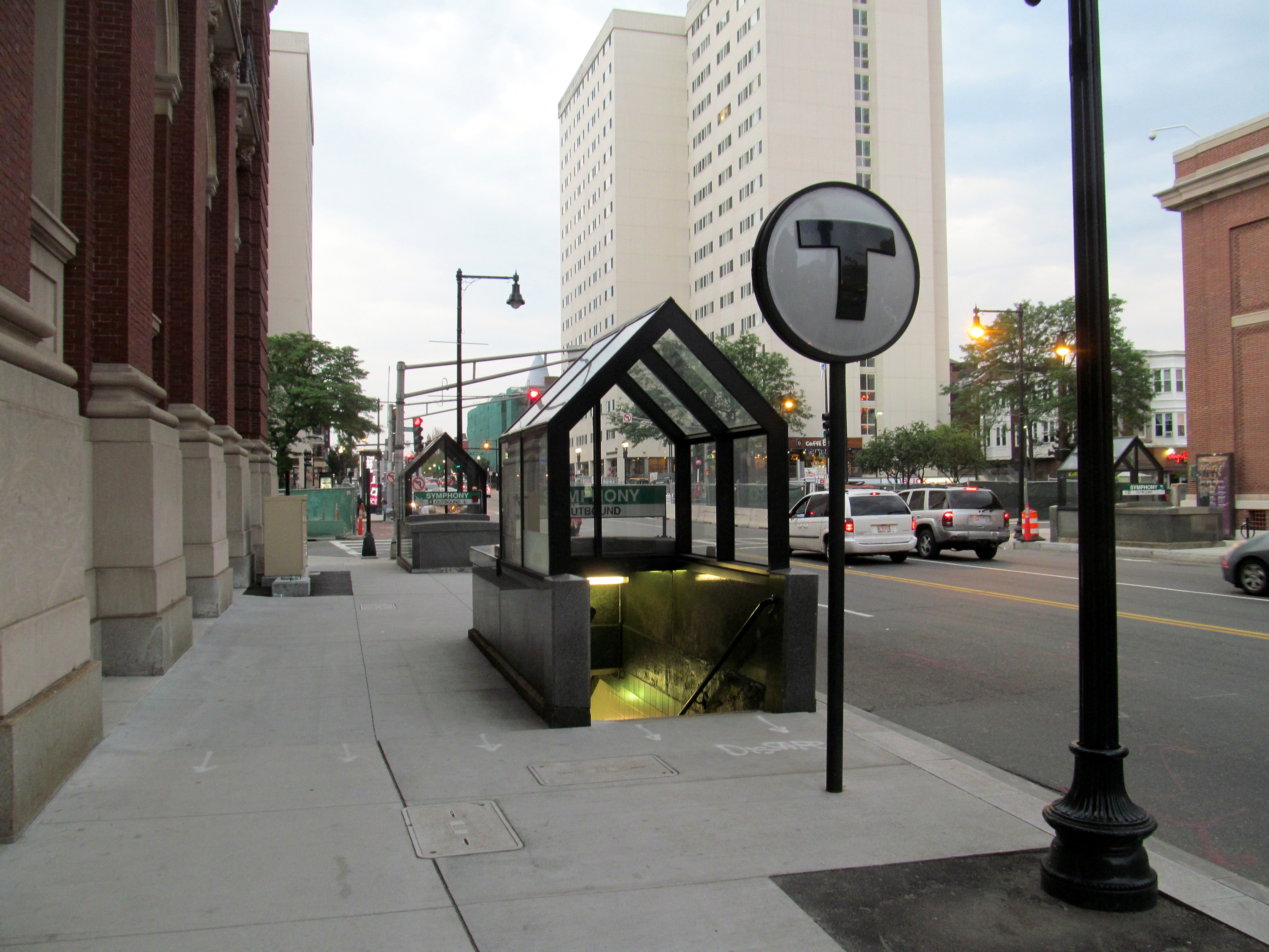 Outbound headhouses at Symphony station in August 2015